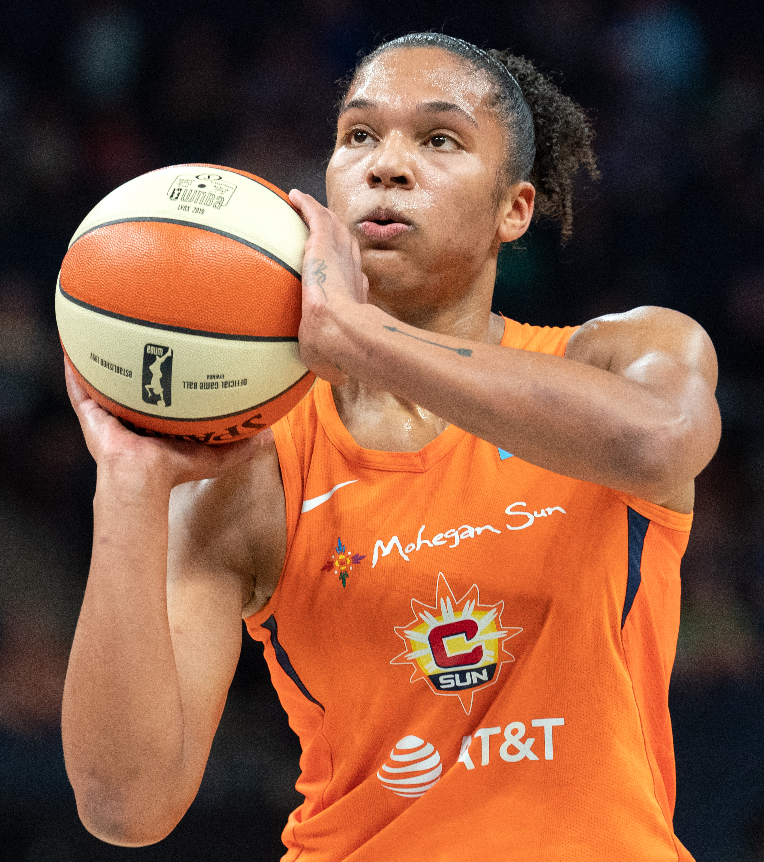 Connecticut Sun player Alyssa Thomas in a game against the Minnesota Lynx